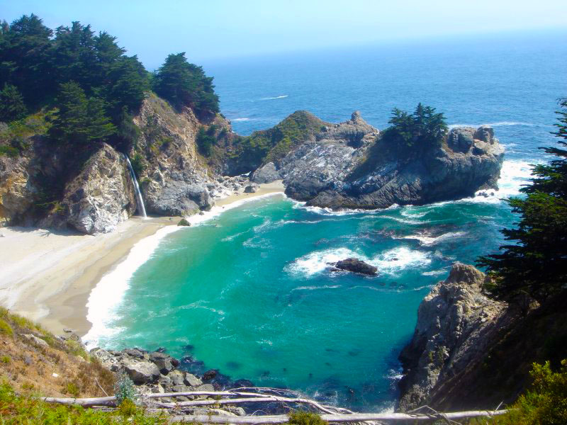 McWay Falls, Julia Pfeiffer Burns, California, USA